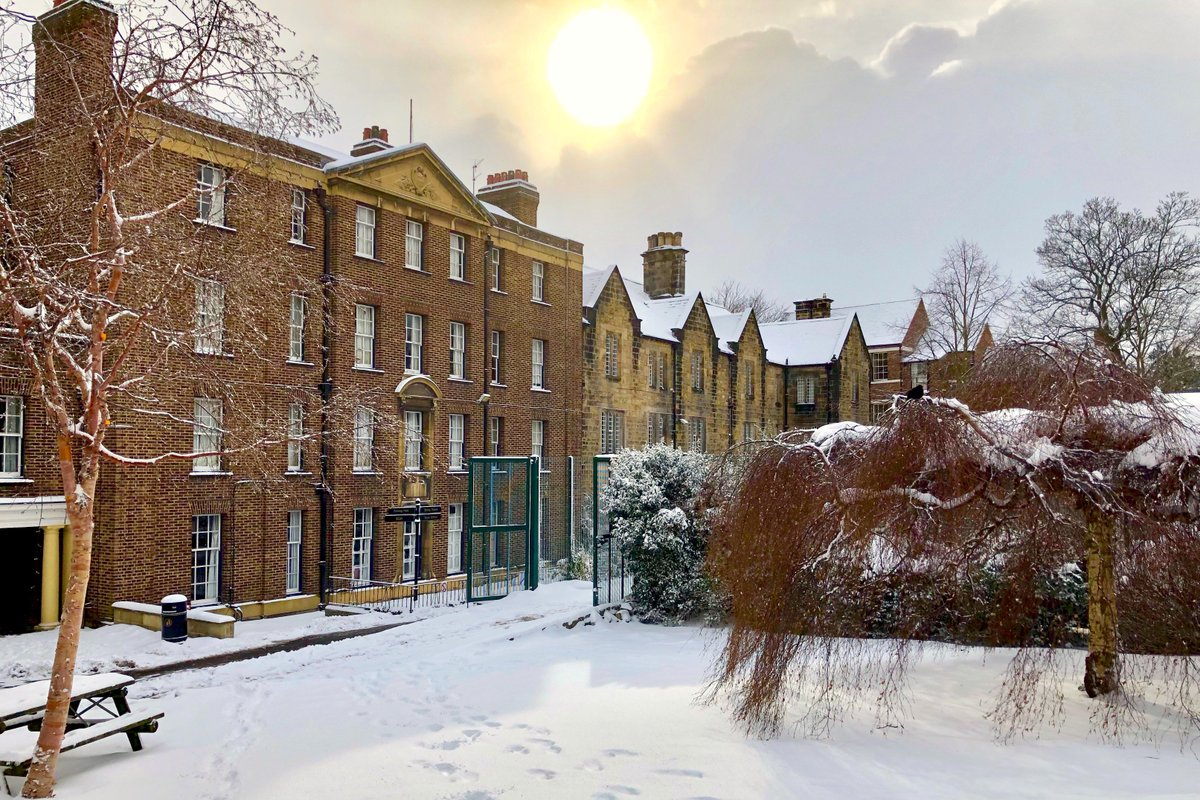 a view of main court at hatfield college, c stairs on the left